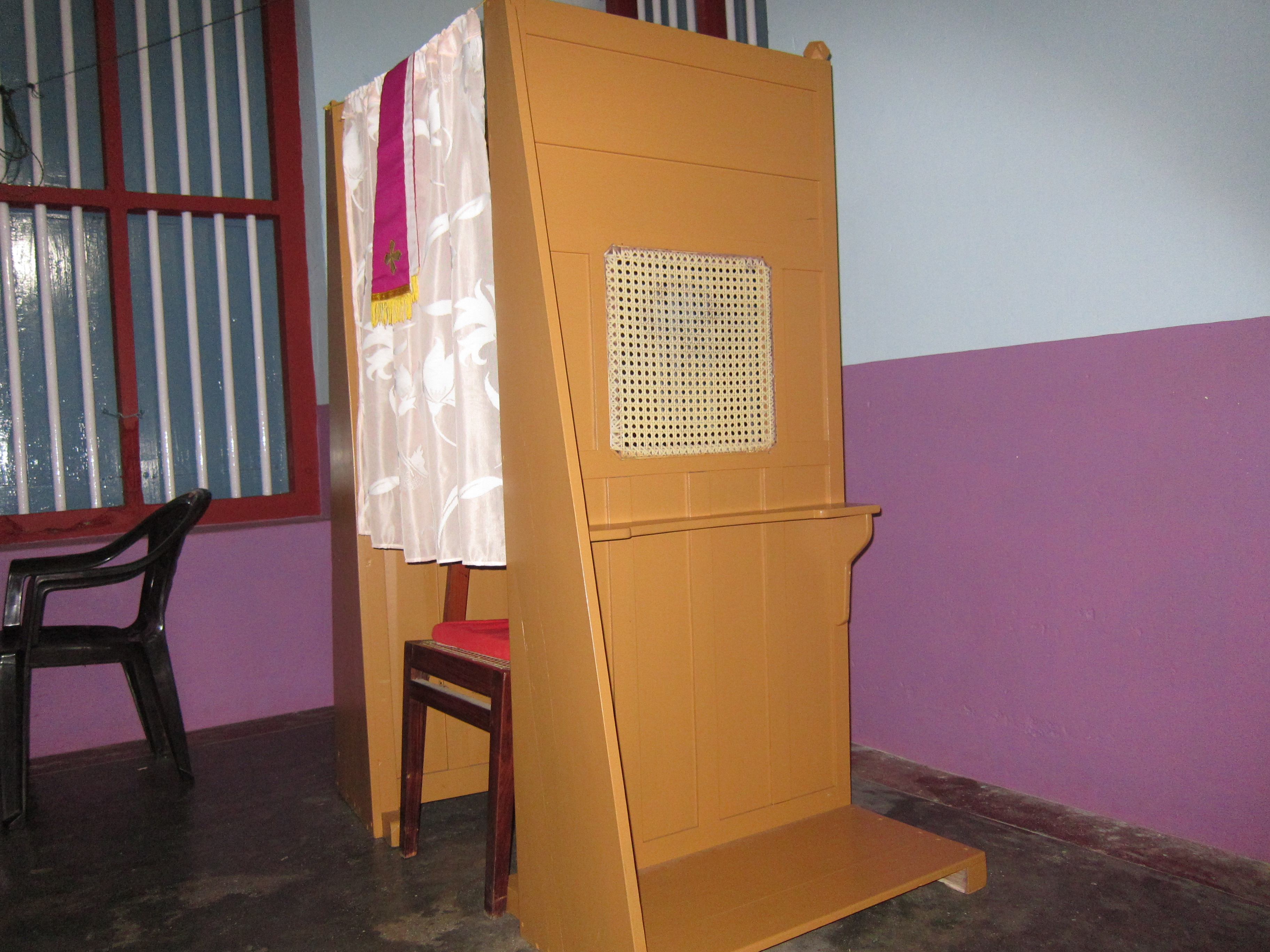 Confession Box - കുമ്പസാരക്കൂട്, കോതമംഗലം രൂപതയിലെ ഞായപ്പിള്ളി പള്ളിയിലെ കുമ്പസാരക്കൂടും, കുമ്പസാരിപ്പിക്കുന്ന സമയത്ത് പുരോഹിതൻ ളോഹയ്ക്ക് മുകളിലൂടെ കഴുത്തിലണിയുന്ന വസ്ത്രവും...